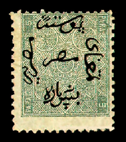 1866 Egyptian Damgha stamp